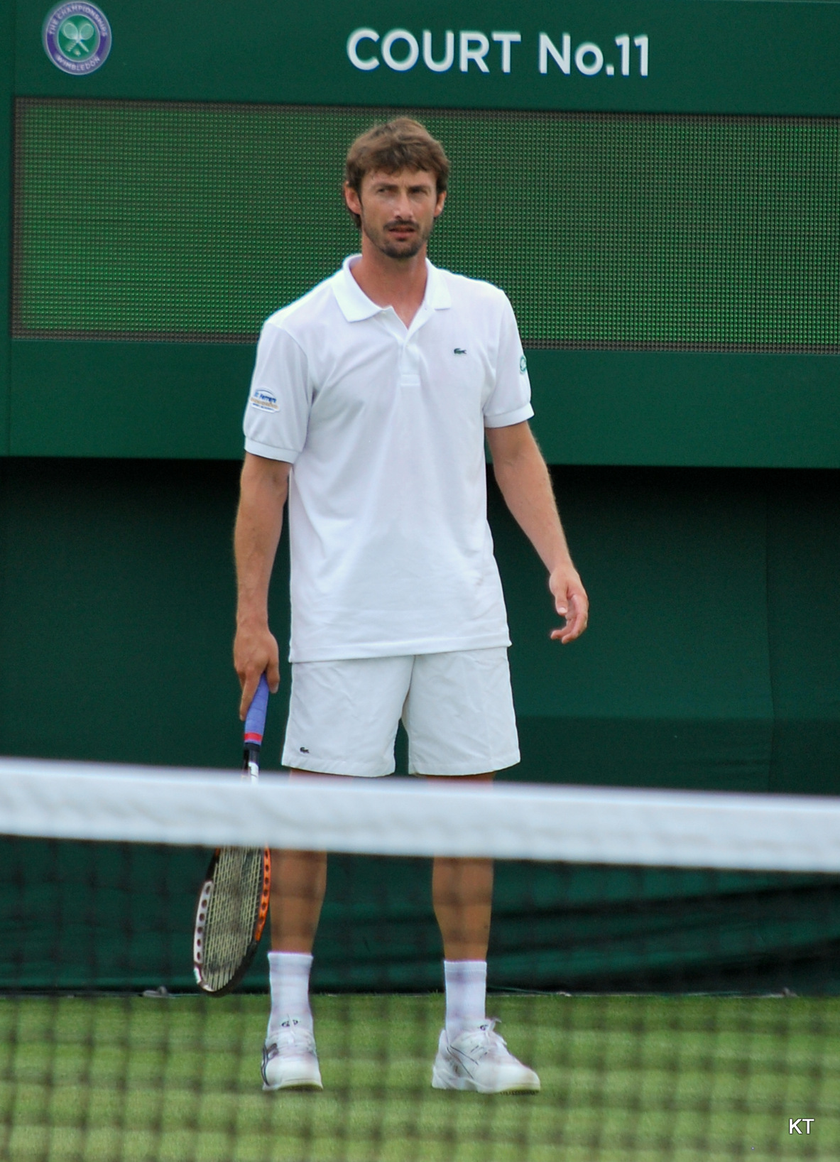 Juan Carlos Ferrero practising with David Nalbandian. Day 1 of Wimbledon 2012.